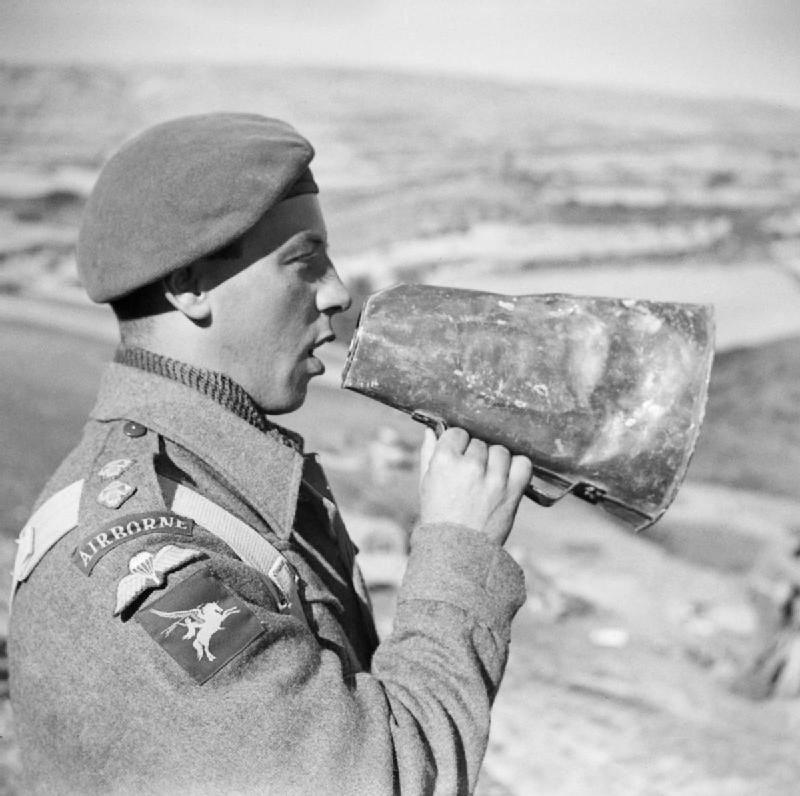 A GPO (Gun Position Officer) of 1st Air Landing Light Artillery Regiment, serving with 5th Division, gives the order to take post at a 75mm howitzer battery during the advance on Isernia, 3 November 1943.